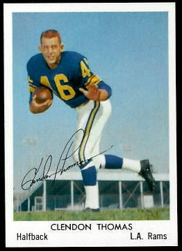 A 1959 promotional image of Los Angeles Rams player Clendon Thomas.